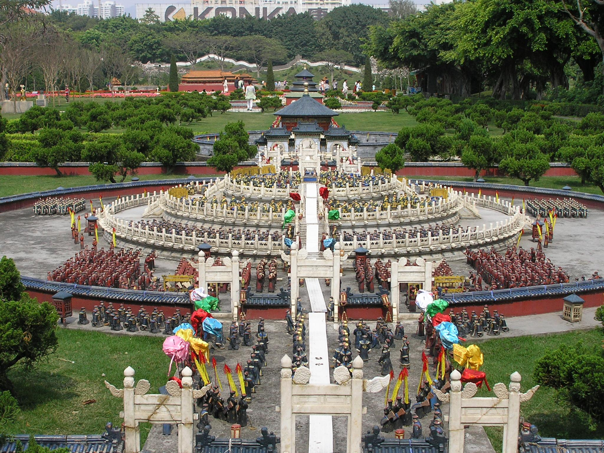 A model version of the Temple of Heaven in Splendid China amusement park, Shenzhen